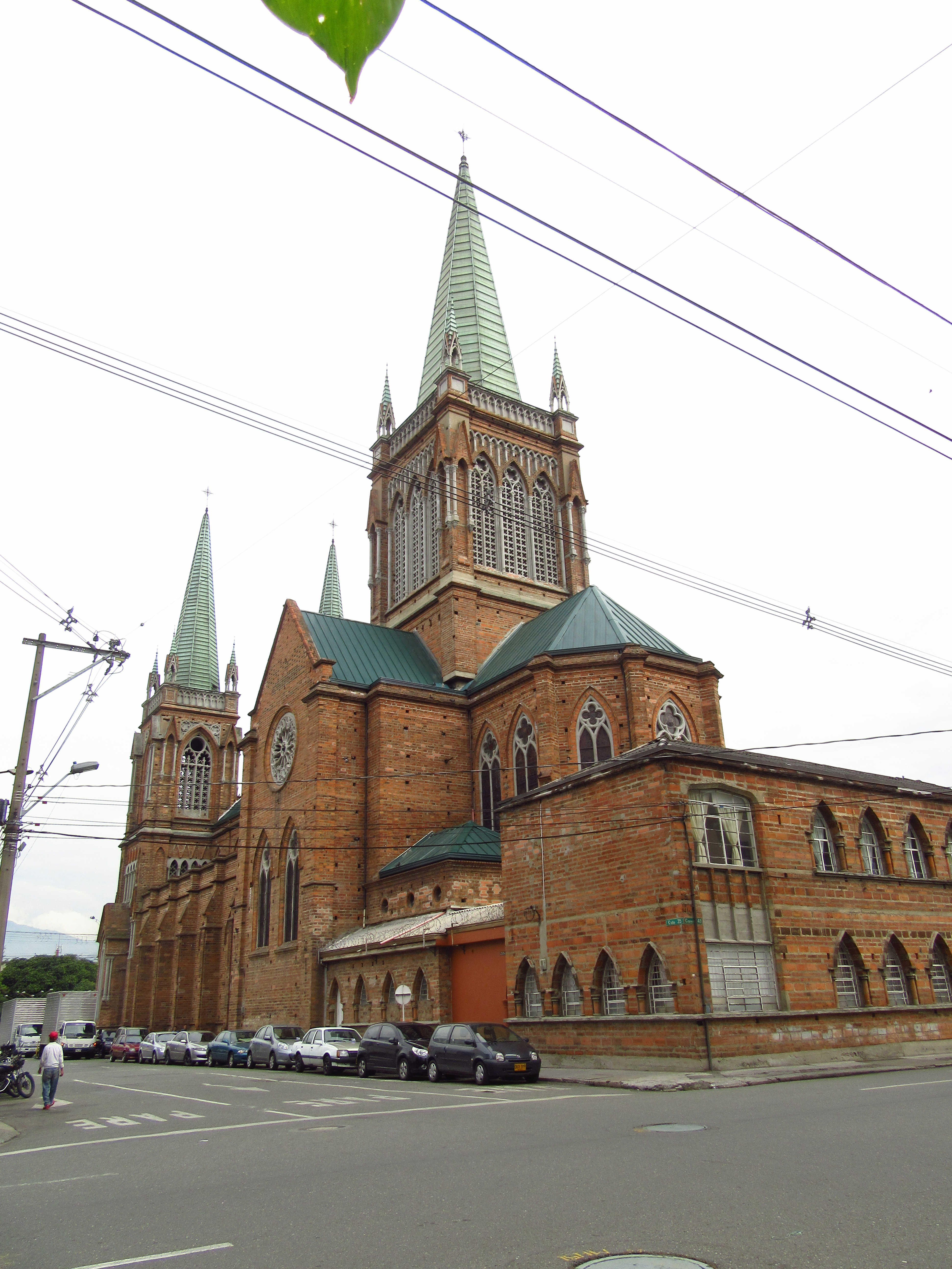 Medellín